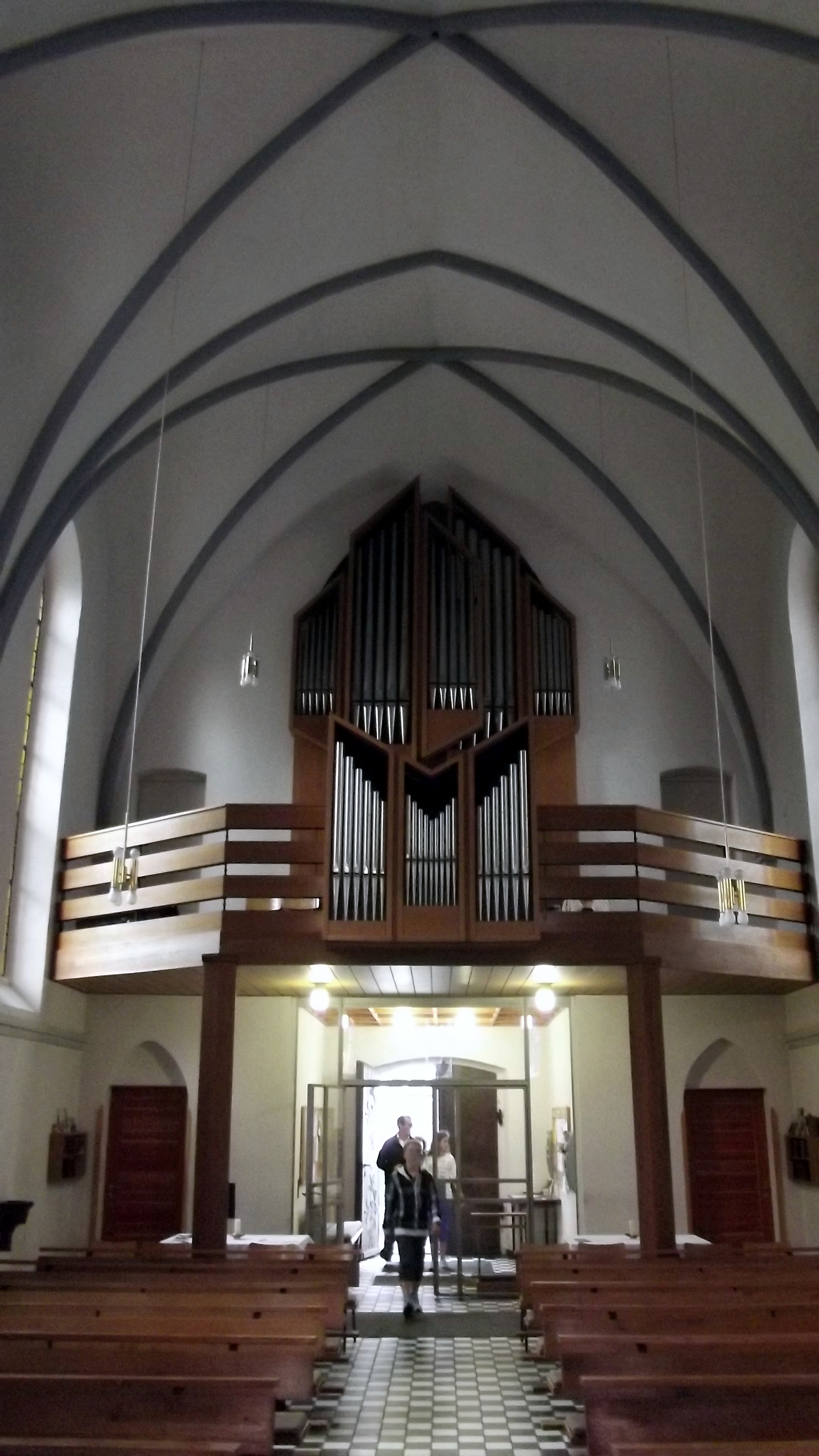 Organ of the catholic church st. joseph in greifswald